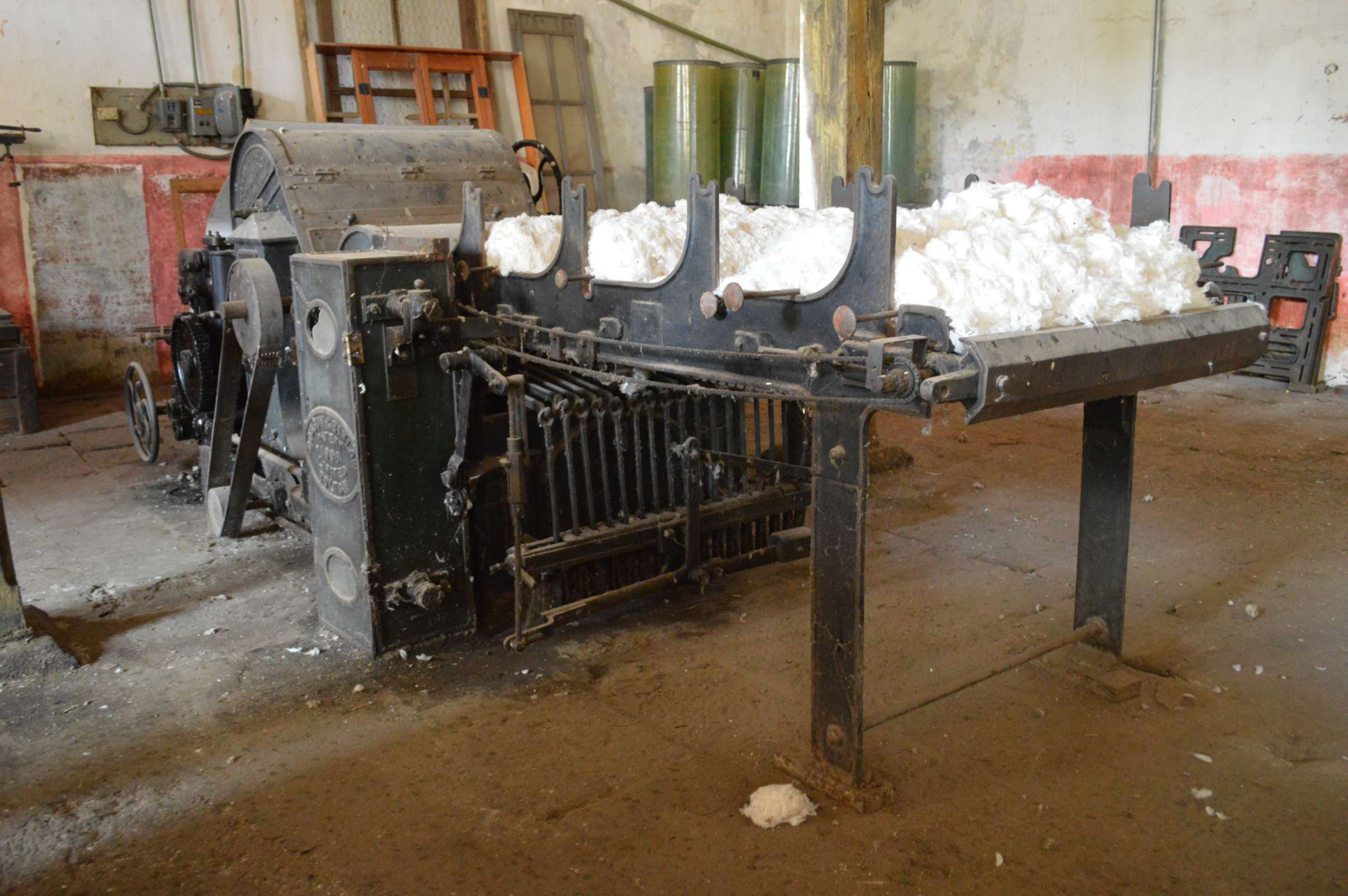 Old seeding maching (?) with cotton fiber at the Fábrica San Pedro in Uruapan, Michoacan, Mexico